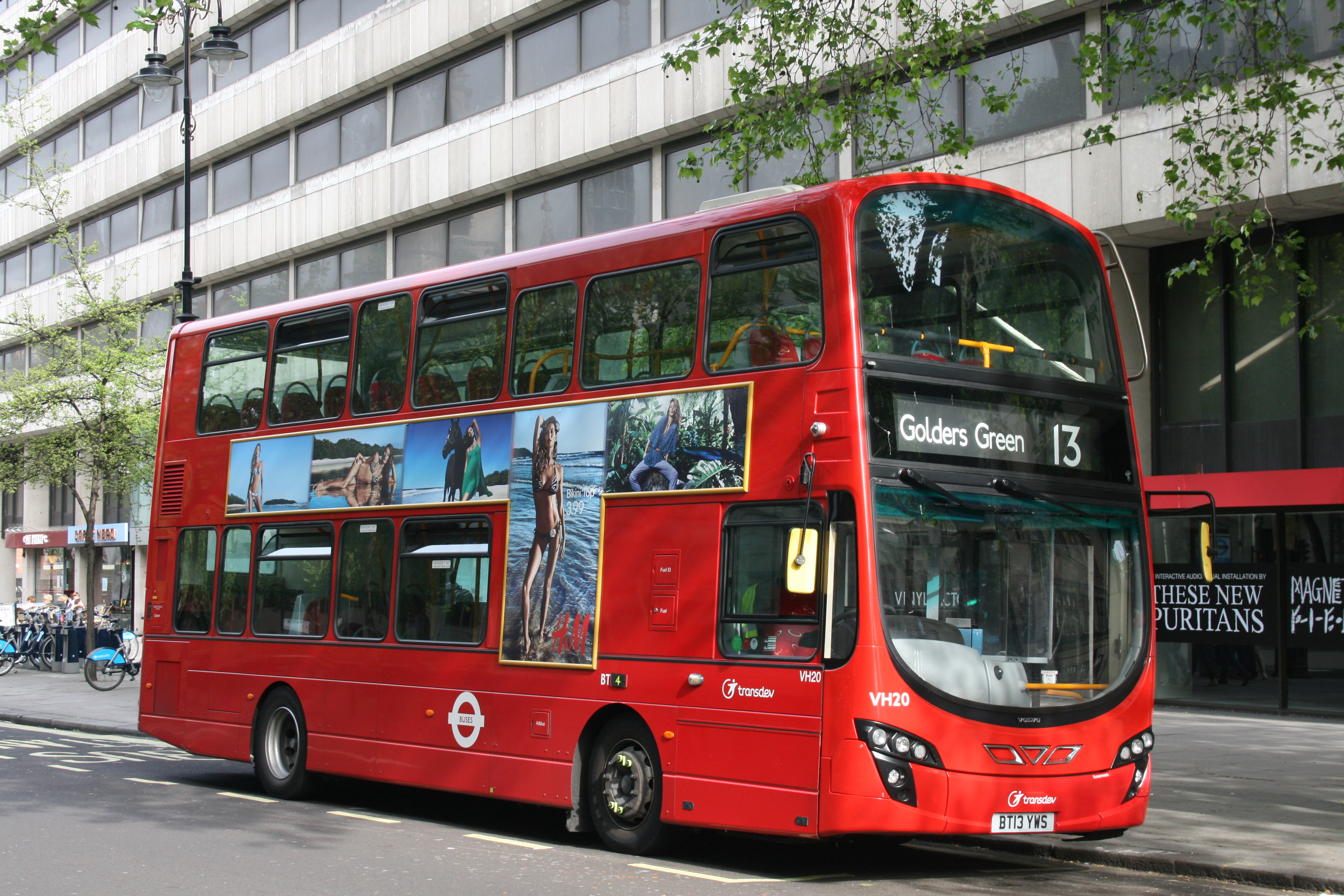 London Sovereign VH20 on Route 13, Aldwych This bus is one of the last (if not the last) bus to still have Transdev logos.